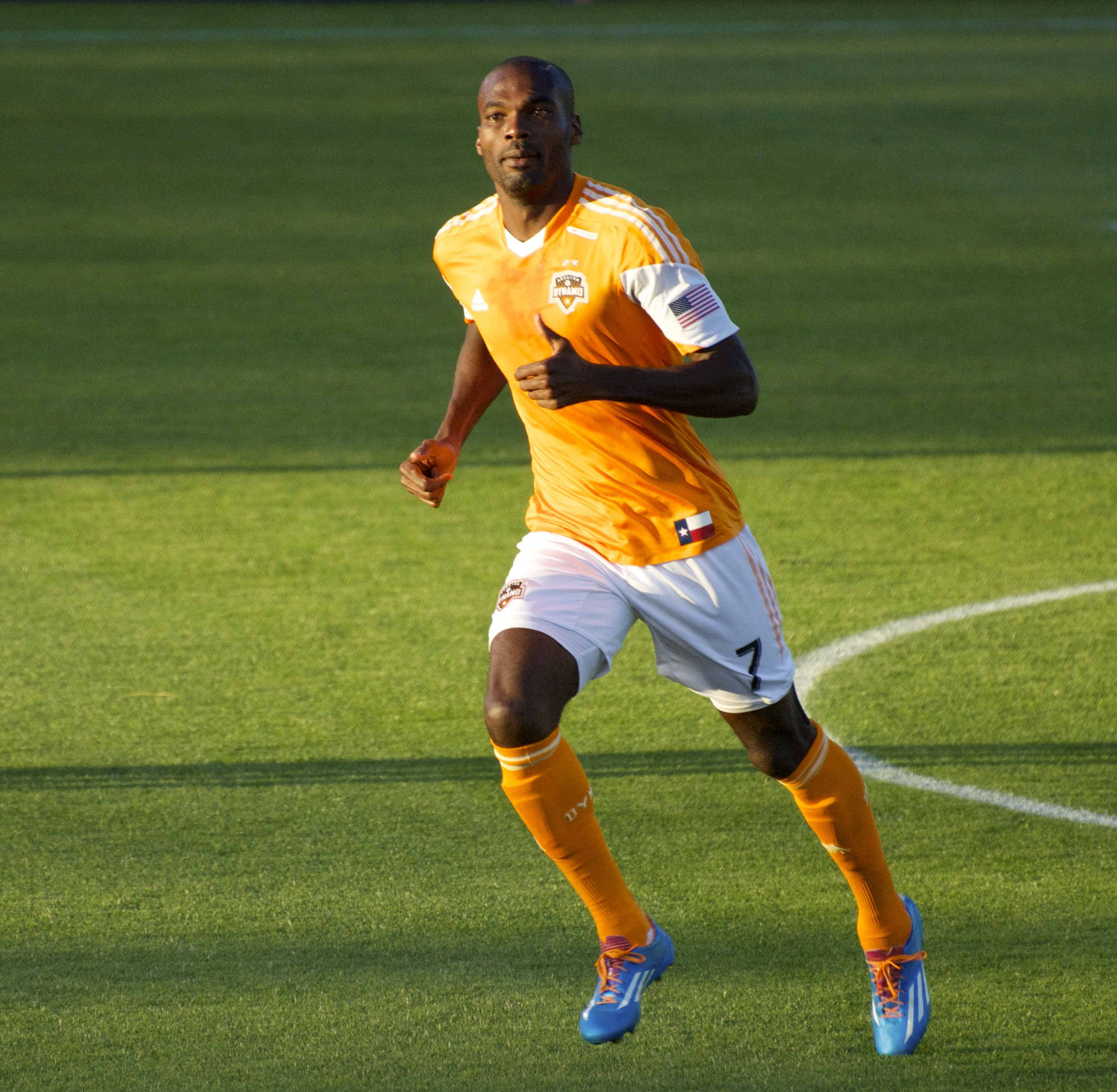 Omar Cummings, Houston Dynamo vs San Jose Earthquakes, Buck Shaw Stadium, 25 May 2014